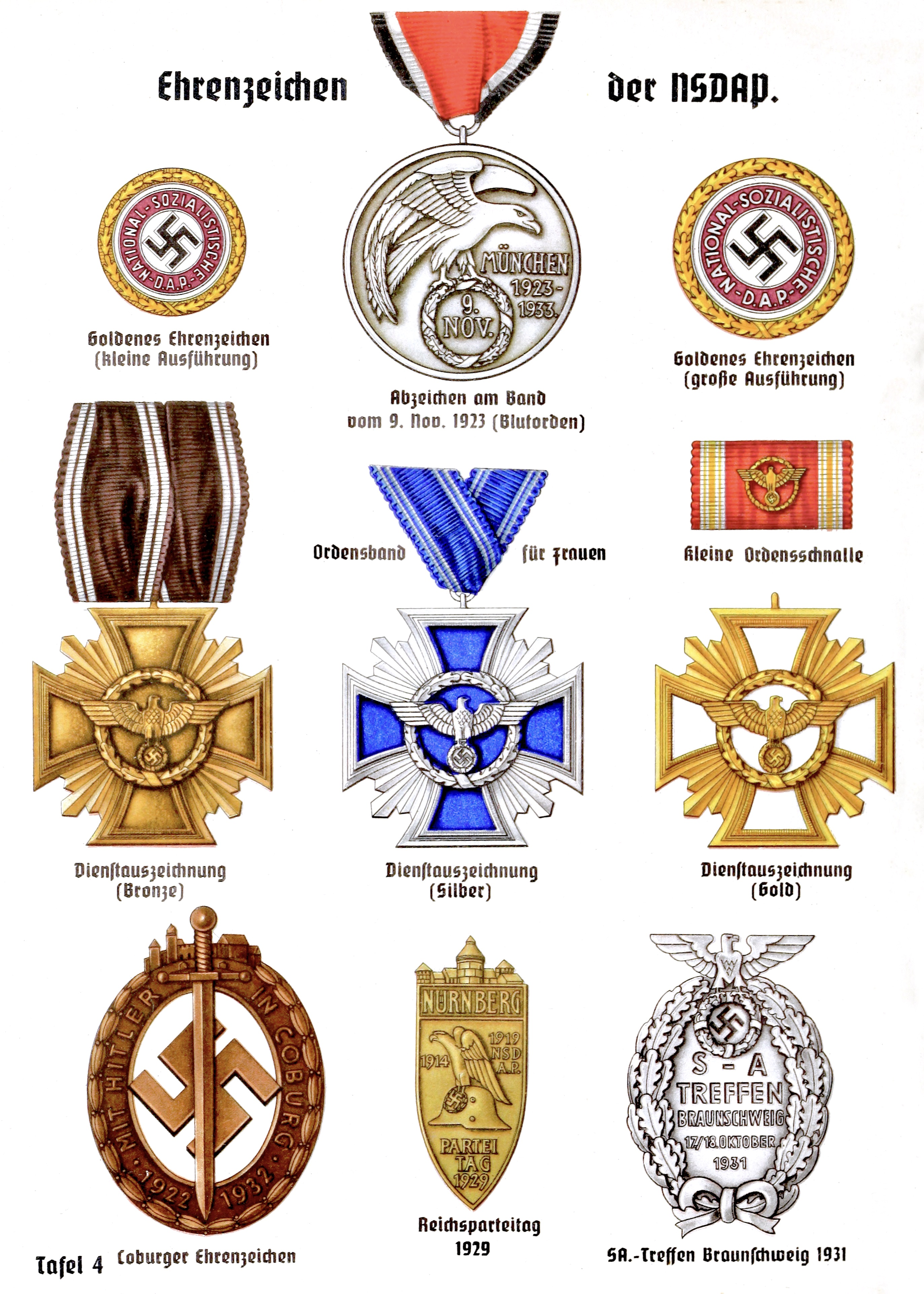 ORGANISATIONSBUCH DER NSDAP 1943: Tafel 4 Ehrenzeichen der NSDAP. Goldenes Ehrenzeichen (kleine Ausfürhung) (Golden Party Badge, small version 24 mm for wearing on a suit jacket); Abzeichen am band vom 9. Nov. 1923 (Blutorden) (Blood Order); Goldenes Abzeichen (große Ausführung) (Golden Party Badge, big version 30.5 mm for wearing on service uniforms) Dienstauszeichnung (Bronze, Silber und Gold) (Nazi Party Long Service Award); Ordensband für Frauen (ribbon for women); Kleine Ordenschnalle (small medal ribbon) Coburger Ehrenzeichen (Coburg Badge); Reichsparteitag 1929 (Nuremberg Party Day Badge); SA.-Treffen Braunschweig 1931 (Brunswick Rally Badge) Color plate showing emblems, badges, political decorations, etc of the Nationalsozialistische Deutsche Arbeiterpartei (NSDAP, National Socialist German Workers' Party) in Nazi Germany. Cropped image with increased contrasts, brighter colors, etc. of page copied from Organisationsbuch der NSDAP by Reichsorganisationsleiter Robert Ley (1890 – 1945) published 1943 ("Herausgeber: Robert Ley"; "7 Auflage: 301-400 Tausend"). Publisher : Zentralverlag der NSDAP, Franz Eher Nachf., München. 856 pages. 596 (ie 750) p: ill, maps, ports, plates; 22 cm; German language. Letters in Fraktur style typefaces. Legal disclaimer This image shows (or resembles) a symbol that was used by the National Socialist (NSDAP/Nazi) government of Germany or an organization closely associated to it, or another party which has been banned by the Federal Constitutional Court of Germany. The use of insignia of organizations that have been banned in Germany (like the Nazi swastika or the arrow cross) are also illegal in Austria, Hungary, Poland, Czech Republic, France, Brazil, Israel, Ukraine, Russia and other countries, depending on context. In Germany, the applicable law is paragraph 86a of the criminal code (StGB), in Poland – Art. 256 of the criminal code (Dz.U. 1997 nr 88 poz. 553).